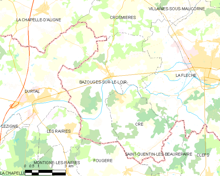 Map of French municipality